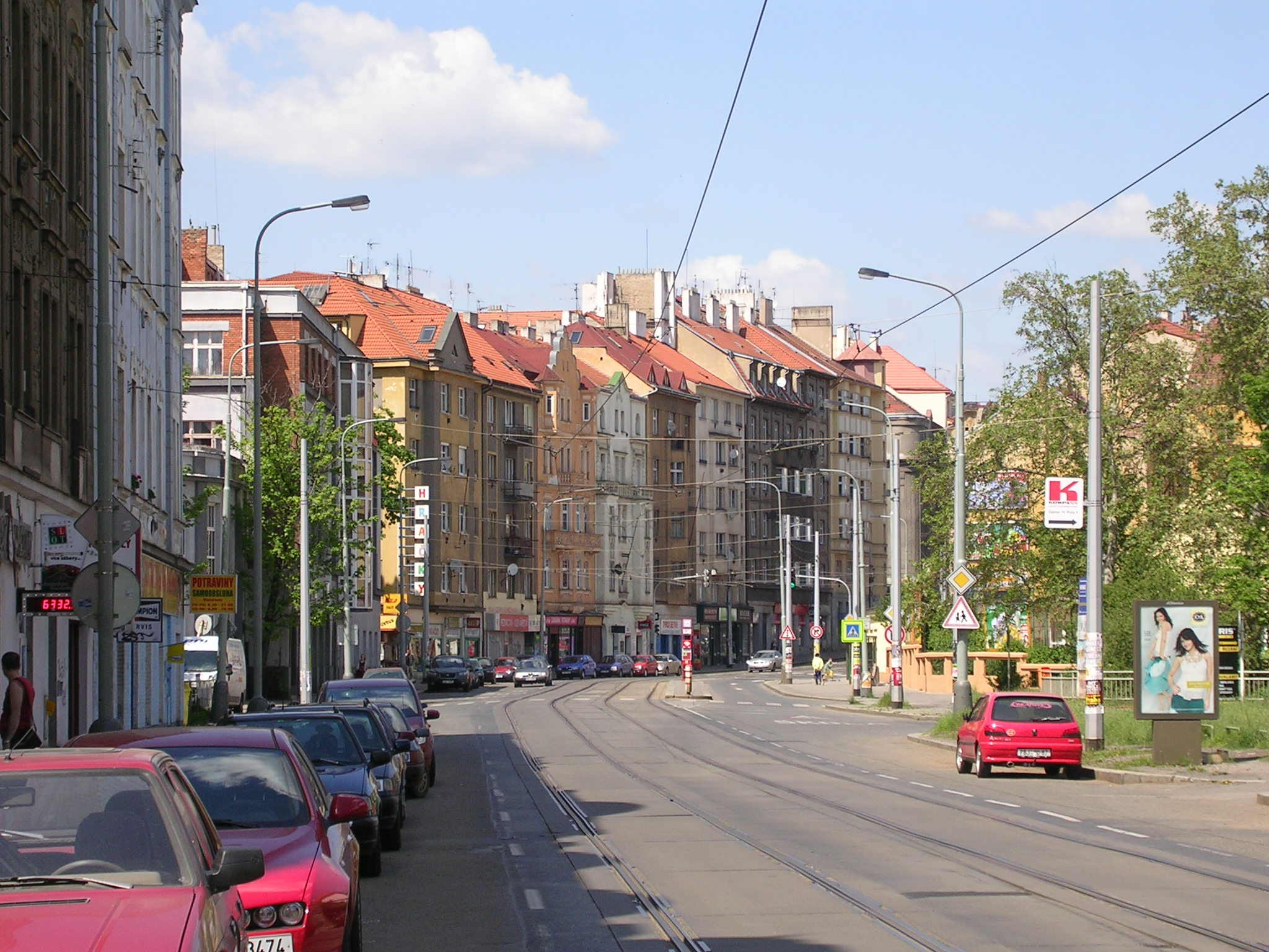 Michle, Prague, the Czech Republic. Nuselská Street.